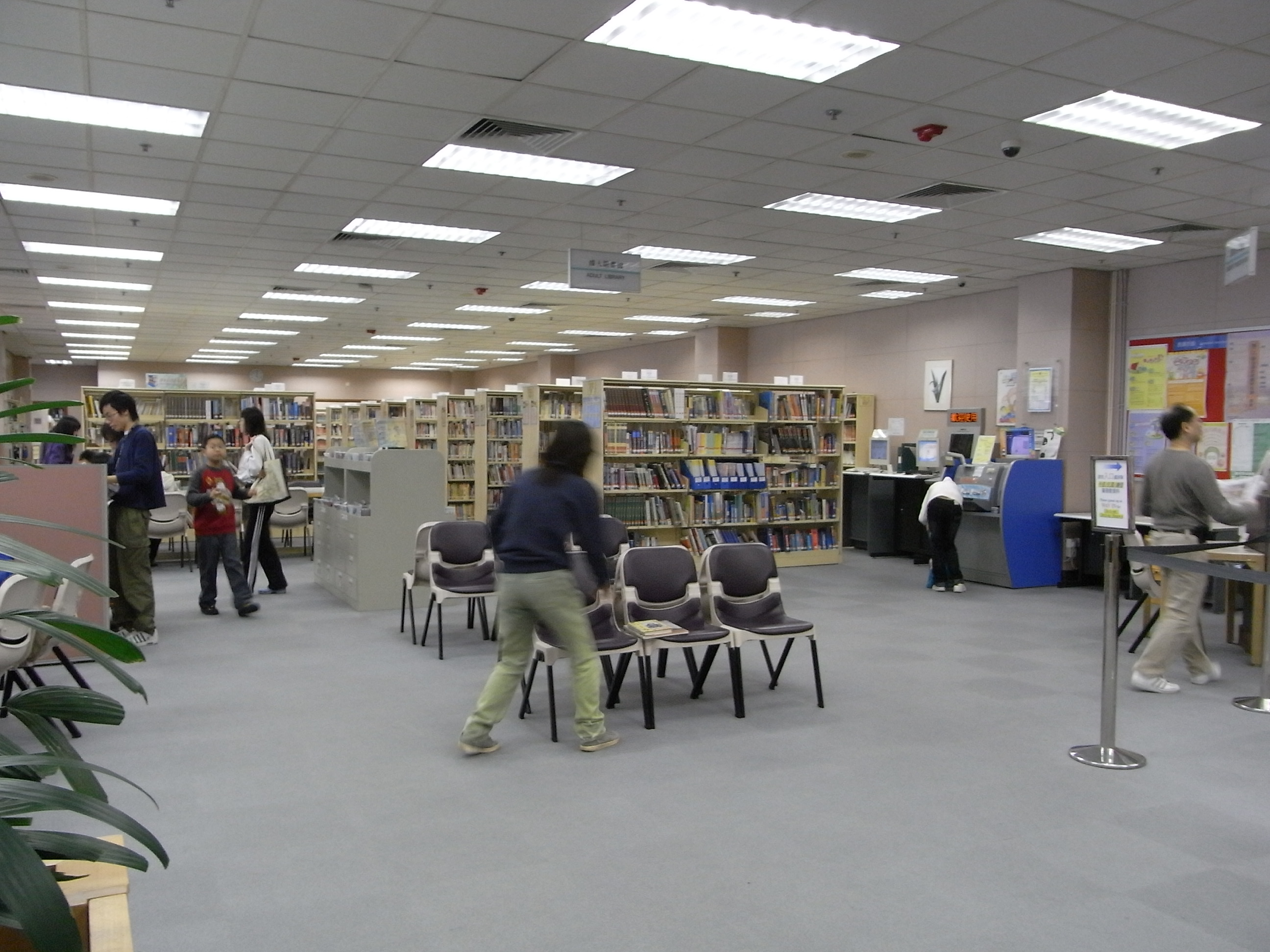 紅磡 紅磡公共圖書館